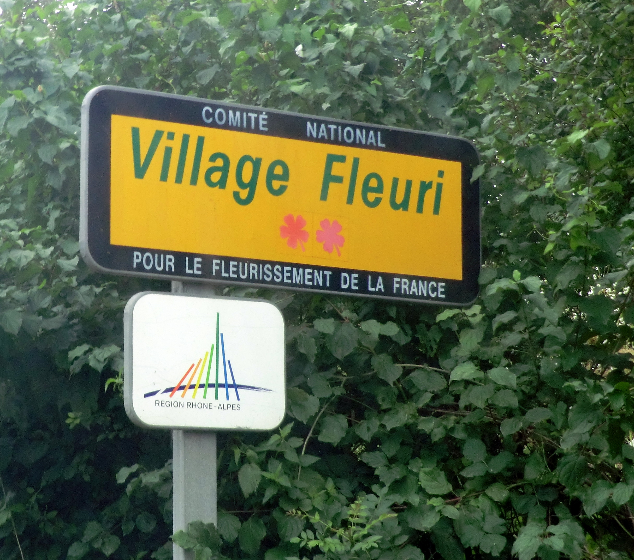 Concours des villes et villages fleuris in Ain in Montellier (two flowers).